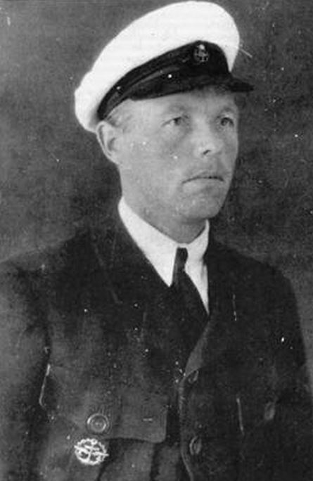 Verner Lehtimäki, Finnih pilot of the Soviet Baltic Fleet.